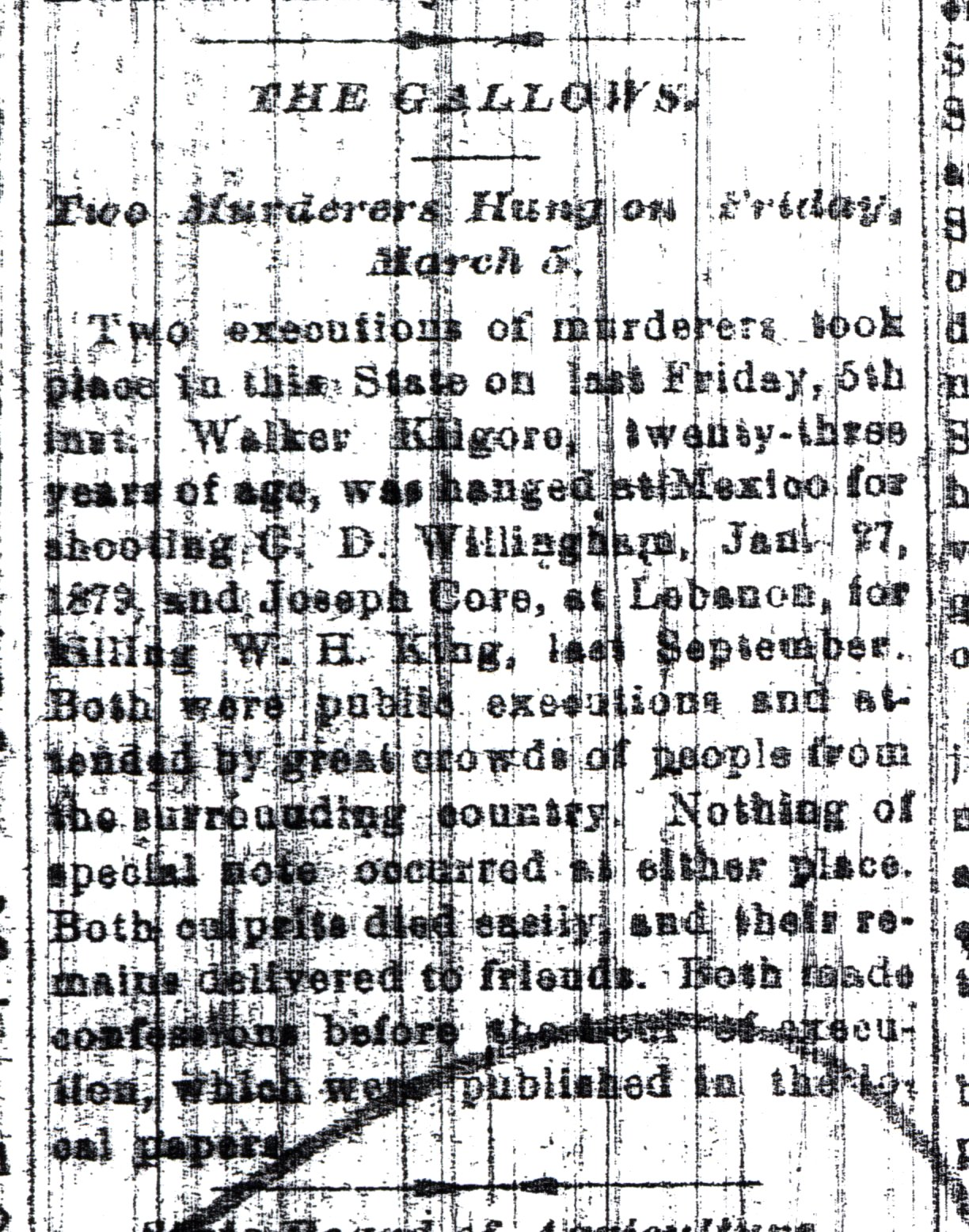 The Gallows, Columbia Missouri Statesman Columbia, Missouri, 12 Mar 1880 Regarding hanging Joseph Core and Walker Kilgore on March 5, 1880